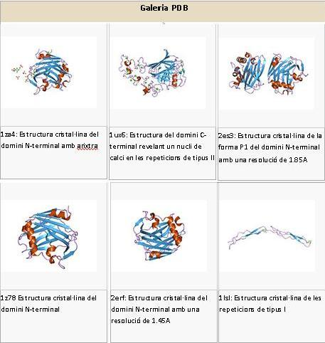 PBB structures